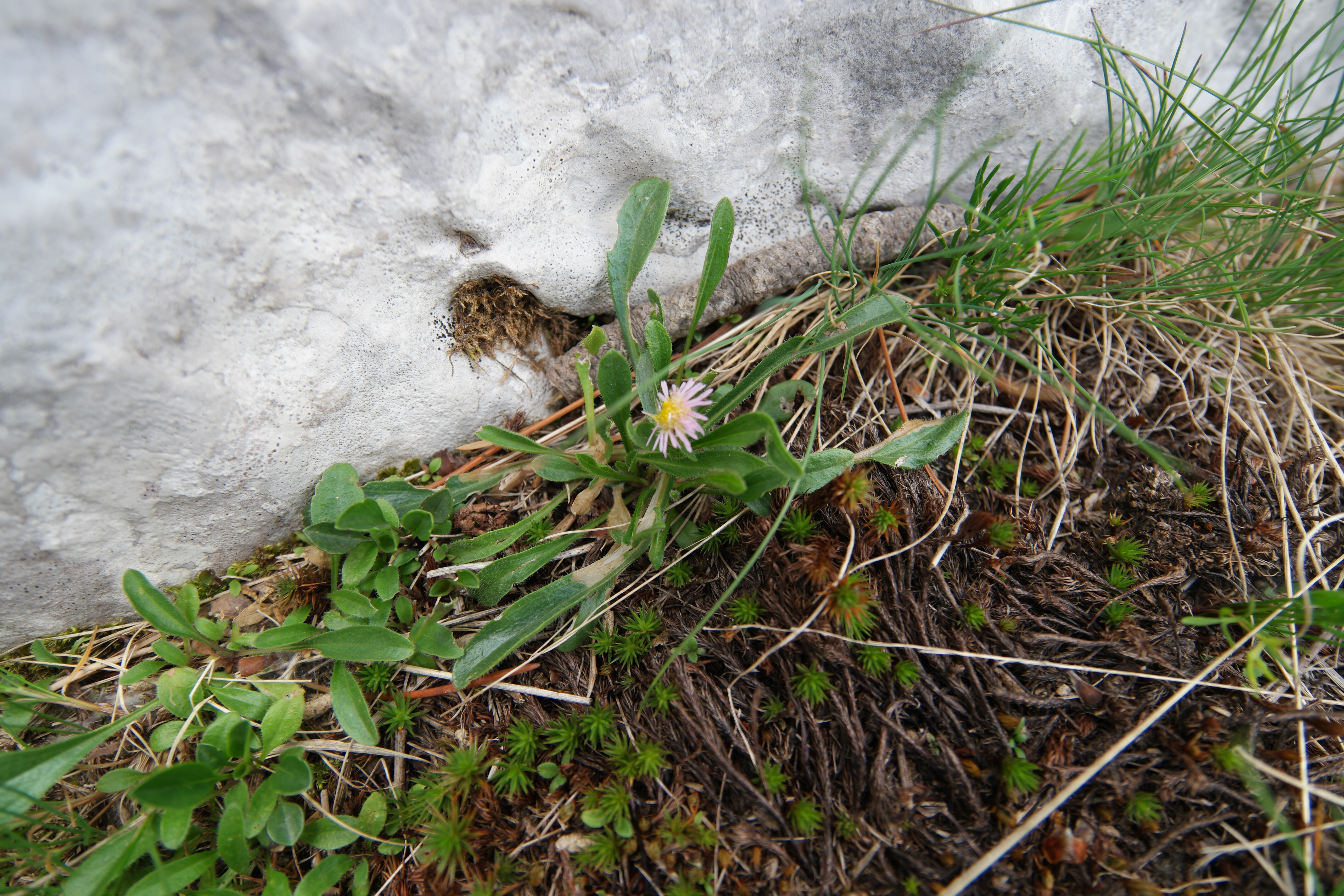 Erigeron uniflorus L. leg P.Cikovac Mt. Orjen in the subadriatic Dinarids ca. 1710 m